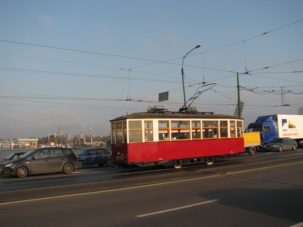 MSO-IV tram at Tuchkov bridge in Saint Petersburg